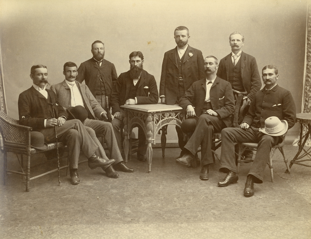 On back of photograph] 'Members of the Elder Scientific Expedition, 1891-92. Taken in 1891 before the party started. The group omits Robert Ramsay (see B 6289). Names from left to right: F.W. Leach (second-in-command), L.A. Wells (surveyor), A. Warren (cook), D. Lindsay (leader), V. Streich (geologist), F.J. Elliot (surgeon), R. Helms (naturalist) and A.P. Gwynne (assistant).' [General description] Some of the men from the expedition are seated on cane chairs around a small ornate cane table, on which the leader is resting his elbow. Others stand behind. Subjects: Leach, Frederick William Elliot, Frederick John Helms, Richard, 1842-1914 Gwynne, Aubrey P. Streich, Victor F. P. (Victor Franz Paul) Warren, Alfred Wells, L. A. (Lawrence Allen), 1860-1938 Lindsay, David, 1856-1922 Royal Geographical Society of Australasia. South Australian Branch Elder Scientific Exploring Expedition (1891-1892) Explorers -- Australia